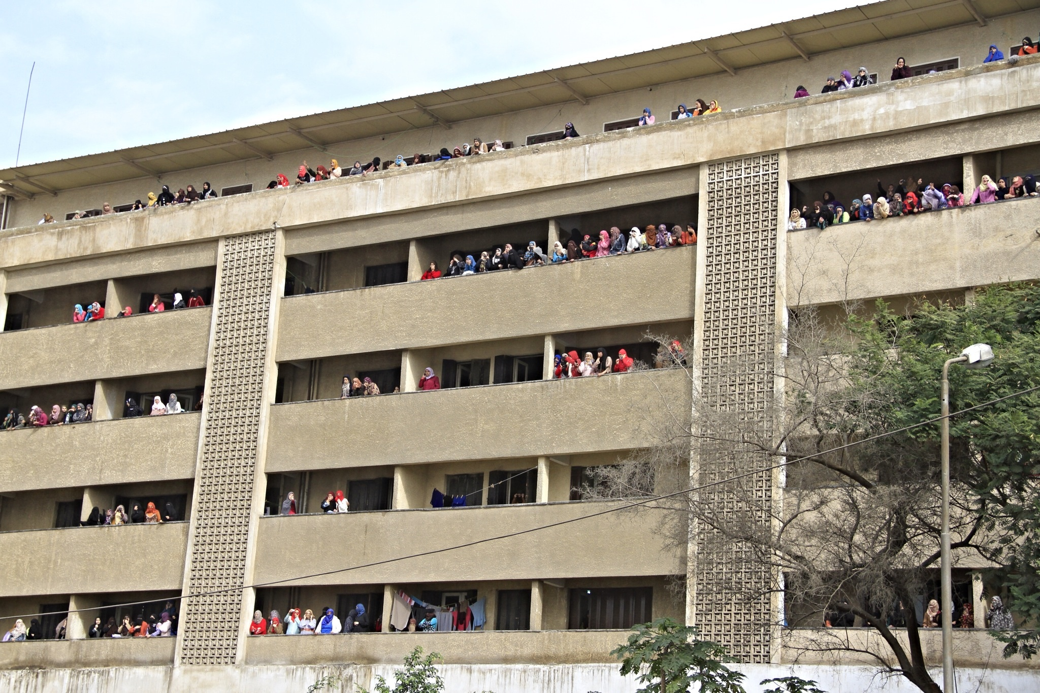 Original description: "Female students watch a protest against the Egyptian government and media at Al-Azhar University in Cairo, Dec. 11, 2013. (Hamada Elrasam for VOA)"